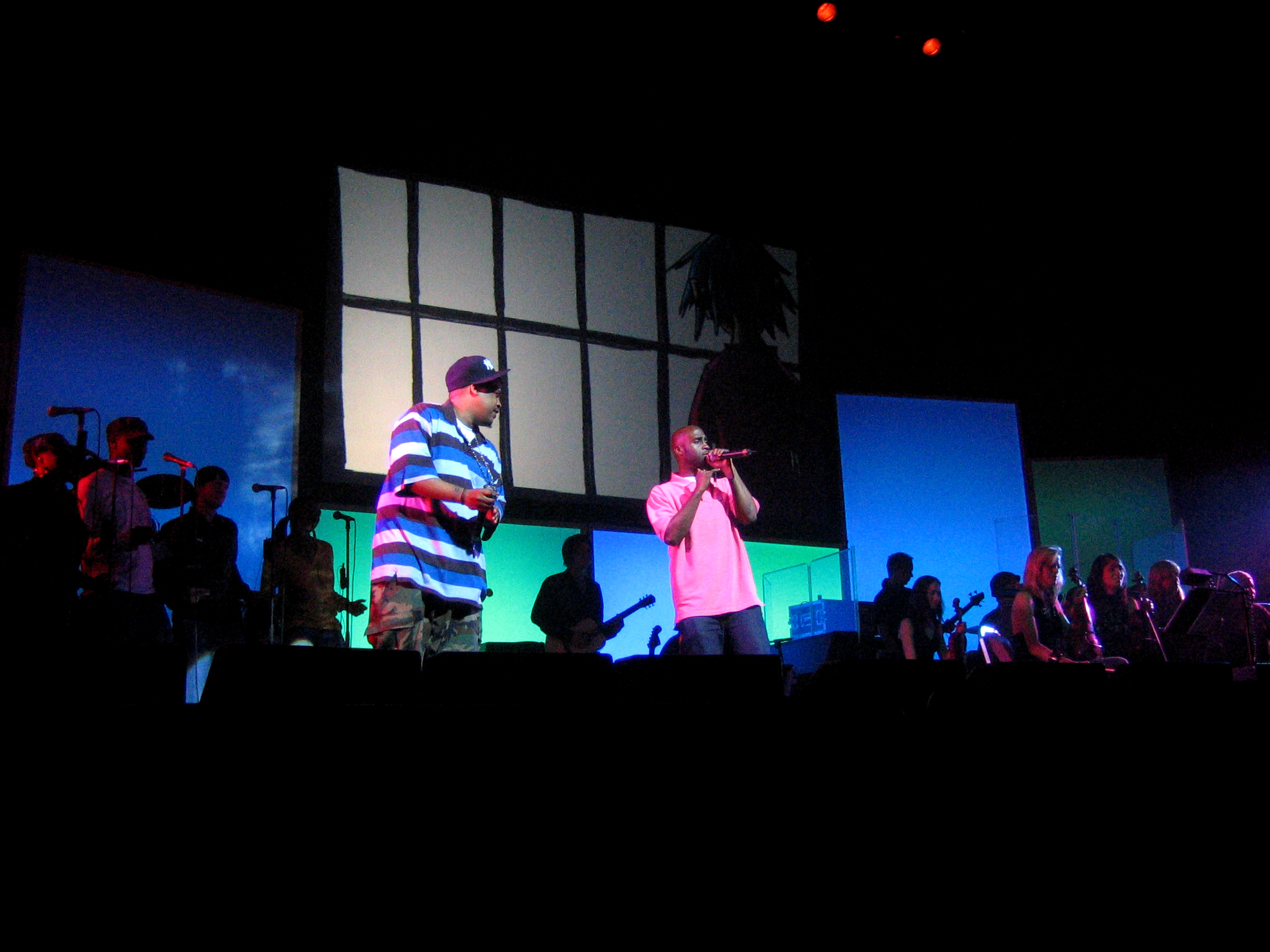 The crowd went nuts when De La Soul took the stage for "Feel Good Inc."